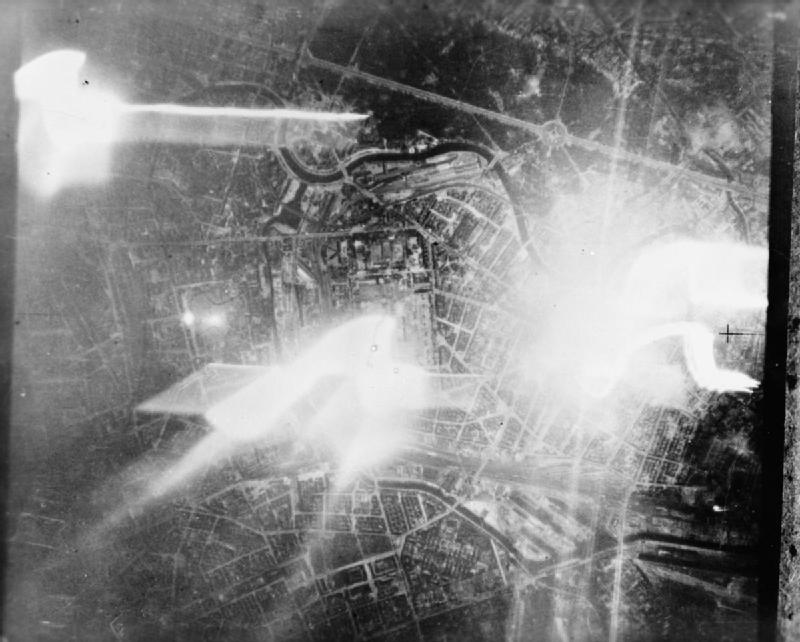 Royal Air Force Bomber Command, 1942-1945. Aerial vertical taken over the Moabit district of Berlin during a raid by 33 De Havilland Mosquitos of the Late Night Striking Force. The track of a falling target indicator (TI) can be seen on the right, illuminating the River Spree,and the Charlottenburger Chaussee, running from top right through the Tiergarten to the Brandenbruger Tor and Unter den Linden. The other light sources are German searchlights.